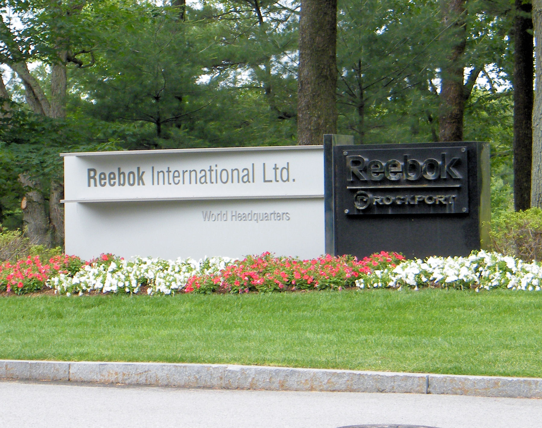 Welcome sign at Reebok world headquarters in Canton. Photographed by user Coolcaesar on June 20, 2009.